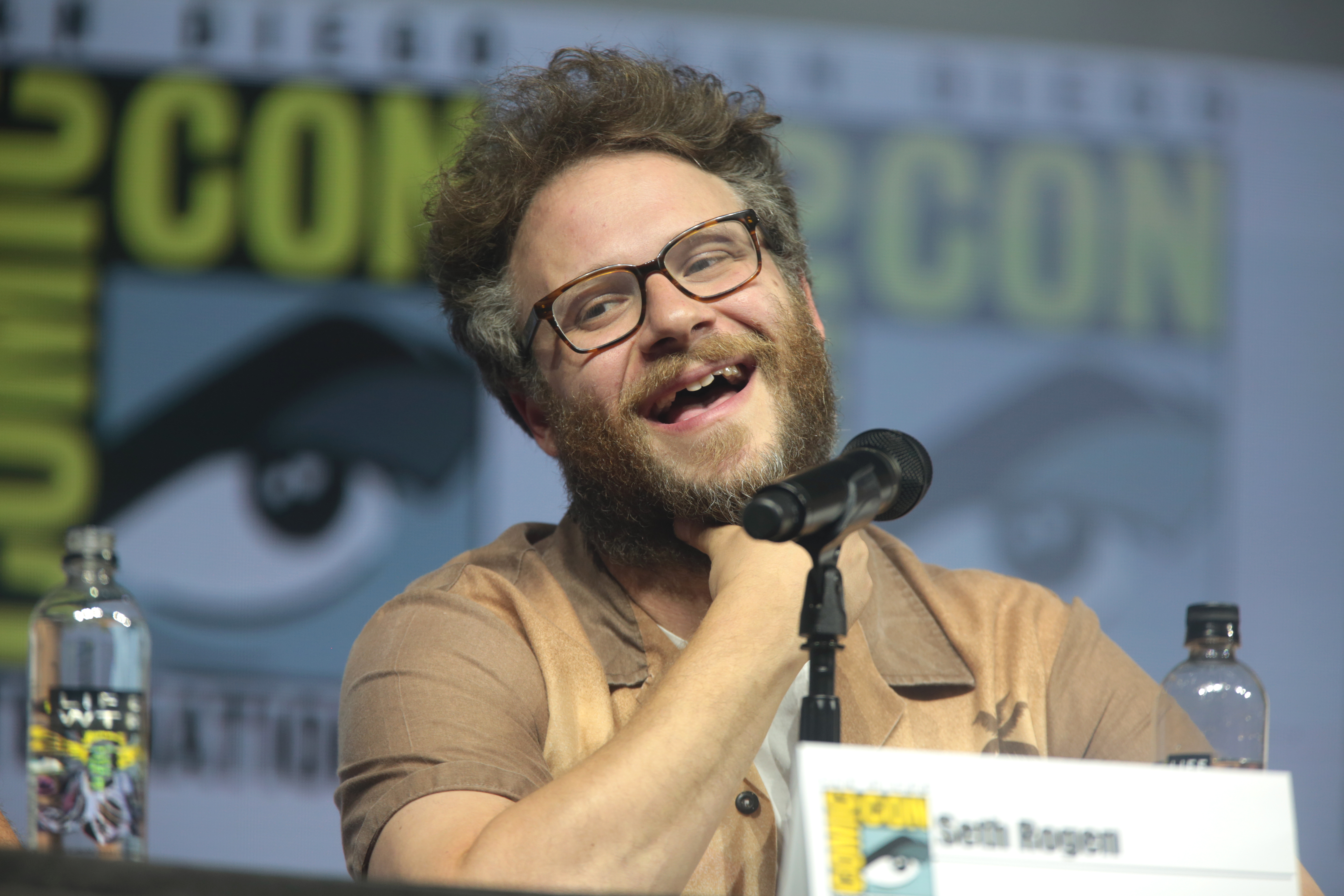 Seth Rogen speaking at the 2018 San Diego Comic Con International, for "Preacher", at the San Diego Convention Center in San Diego, California.